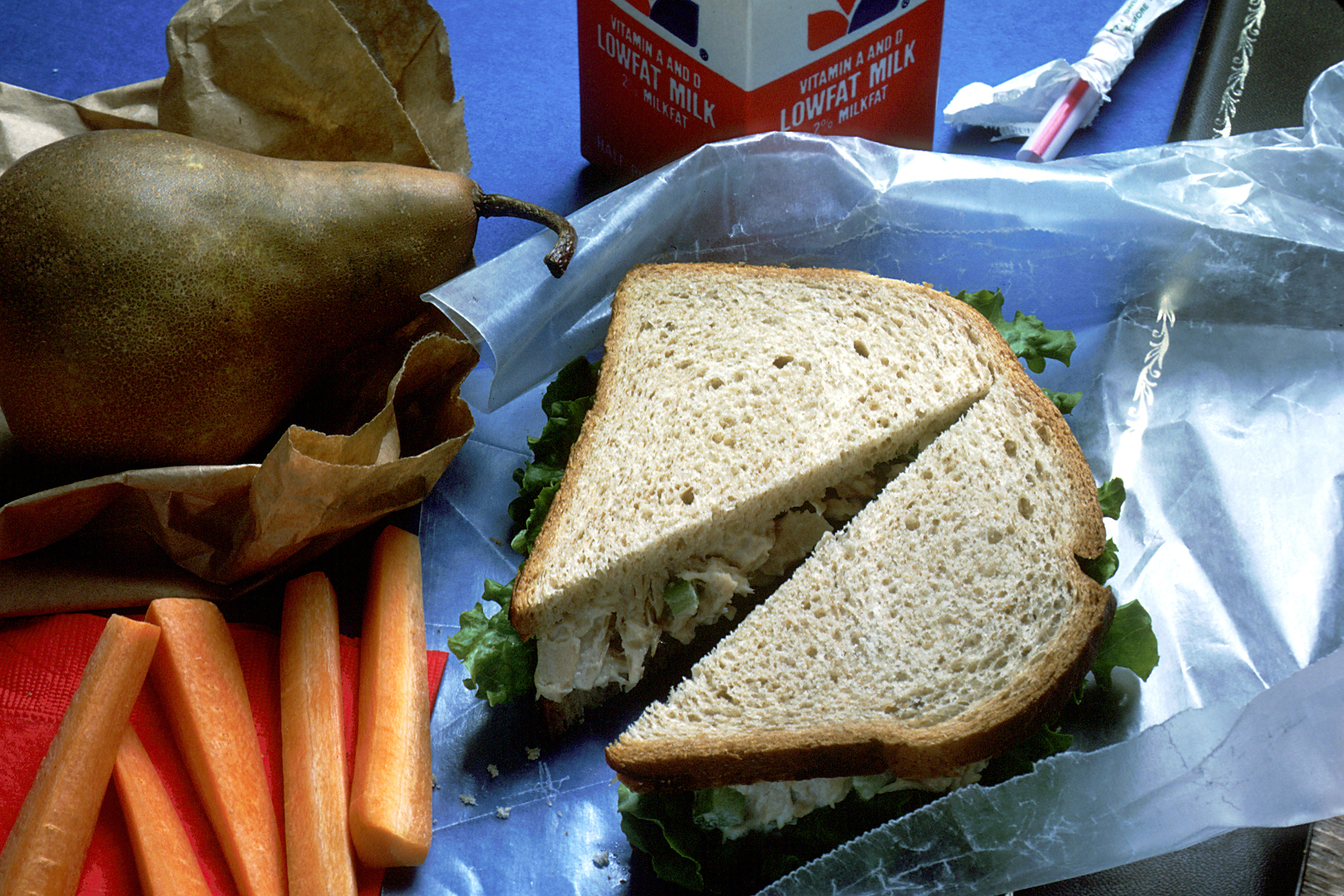 A lunch sits on a blue tablecloth with a brown paper bag and red napkin. There are carrots, a pear, a sandwich on wheat bread with lettuce (chicken salad) and a carton of milk.